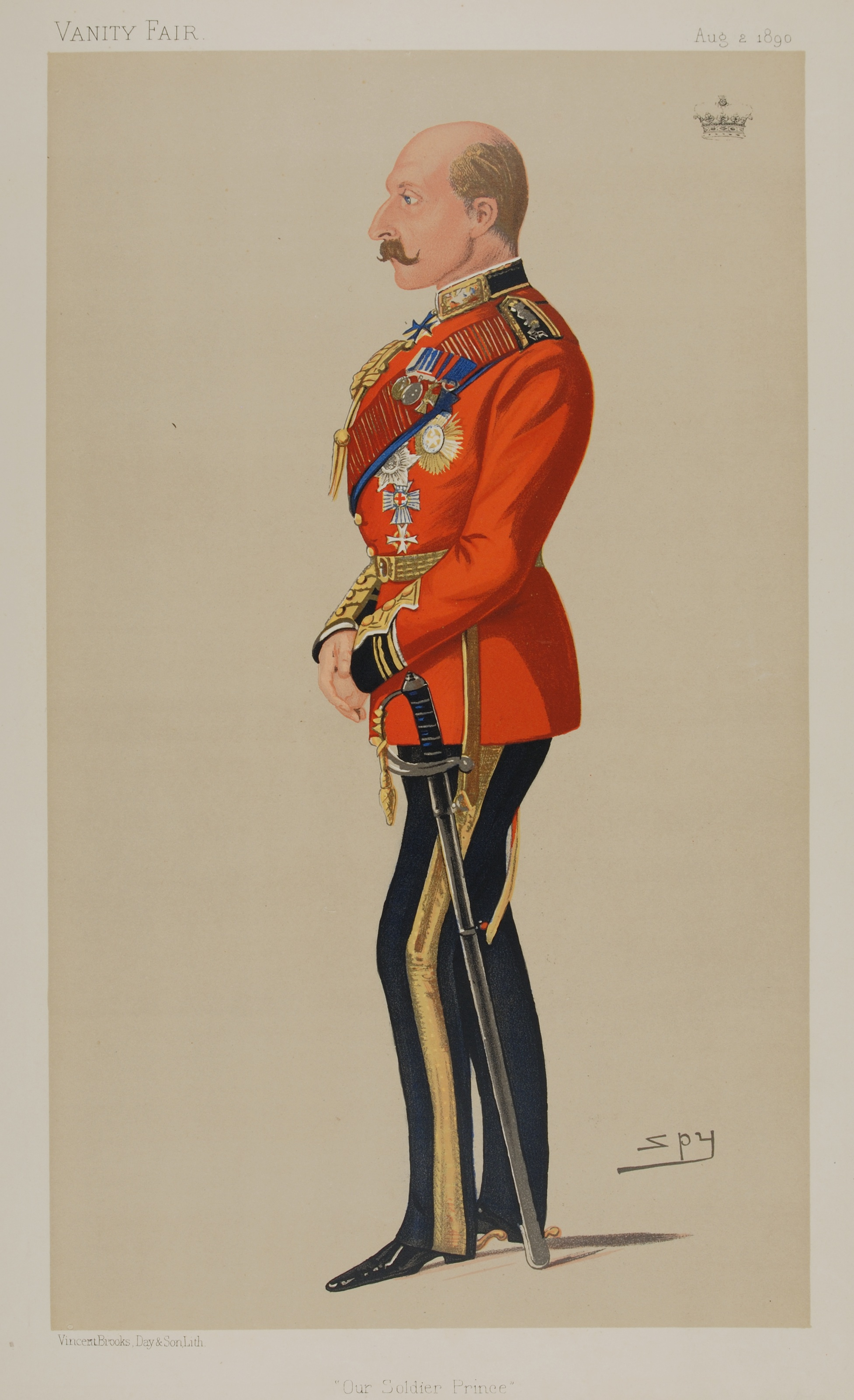 Princes No. 13: Caricature of Prince Arthur, Duke of Connaught and Strathearn. Caption read "Our Soldier prince".